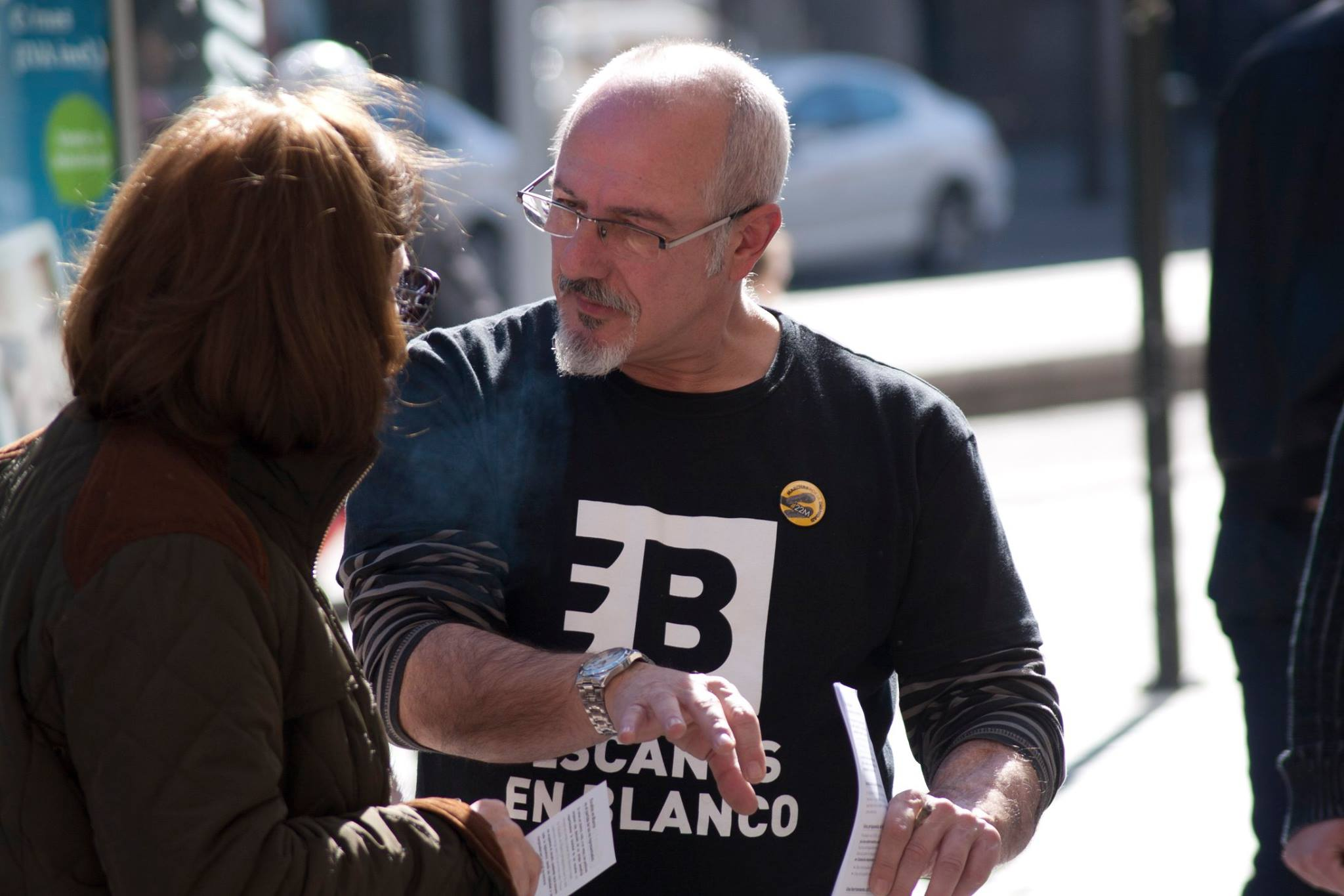 Afiliado de Escaños en Blanco informando a pie de calle durante la campaña de las elecciones Europeas'14.